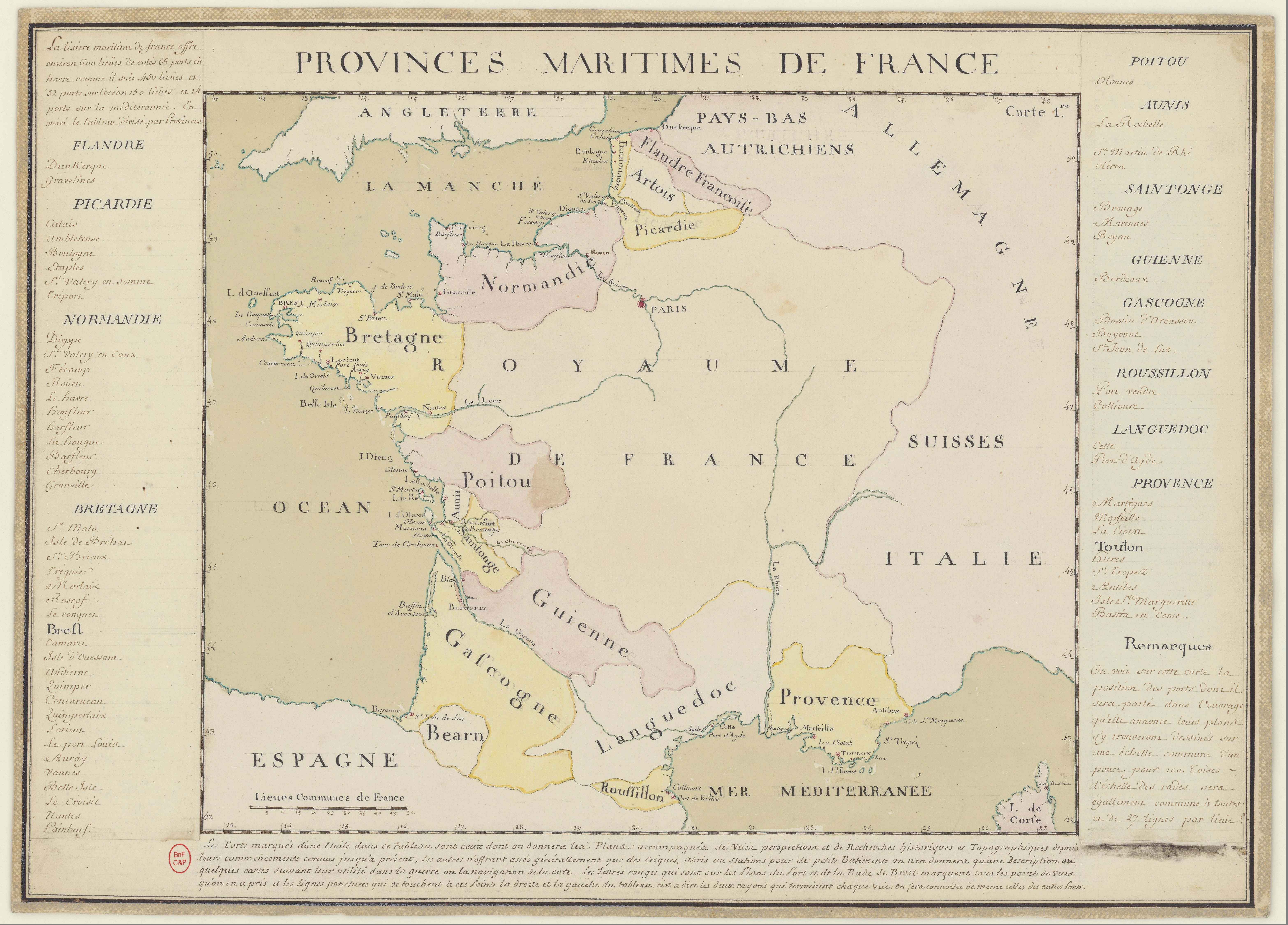 Map of the Kingdom of France with its maritime provinces and the list of ports in 1777.